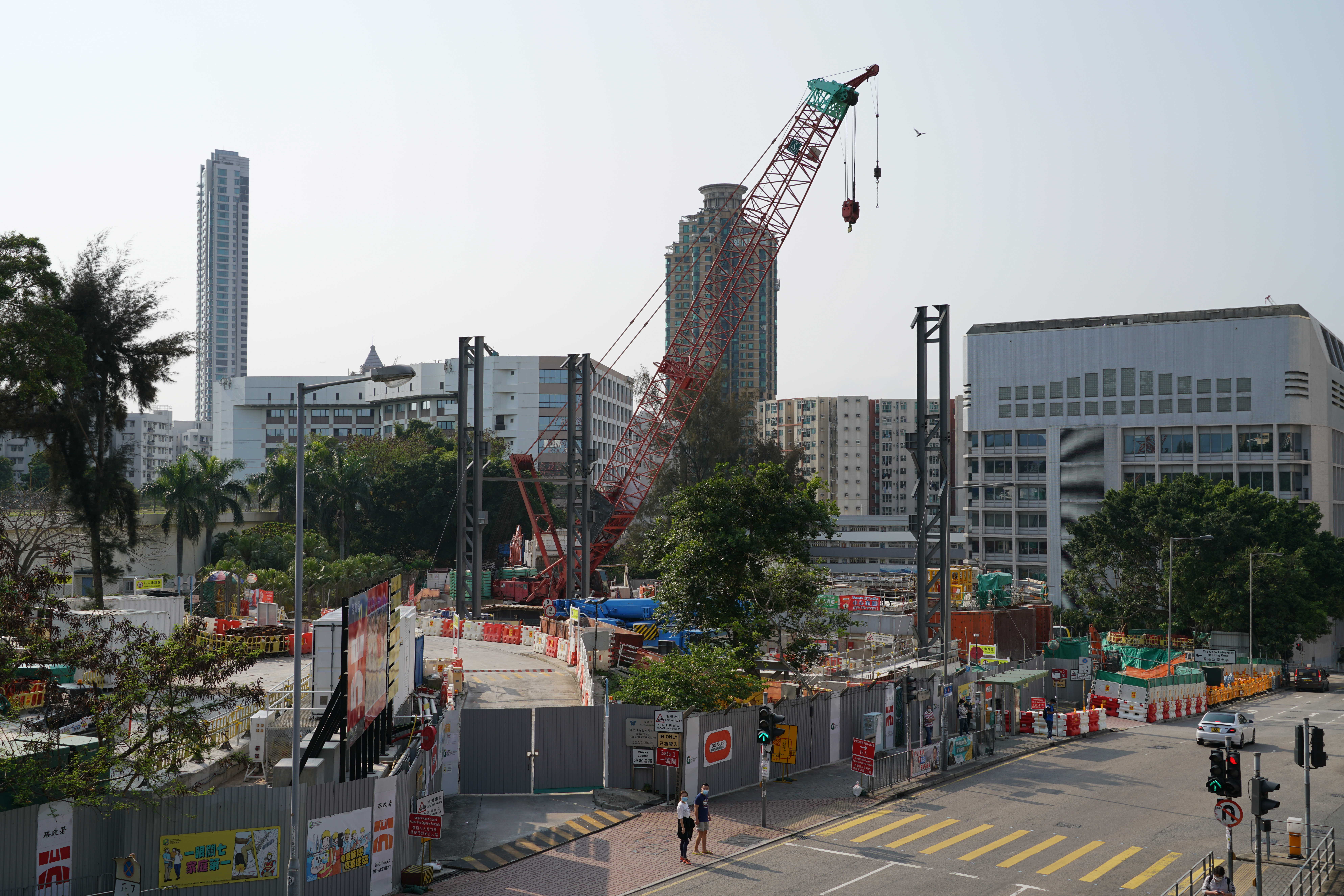 Central Kowloon Route, Hong Kong.